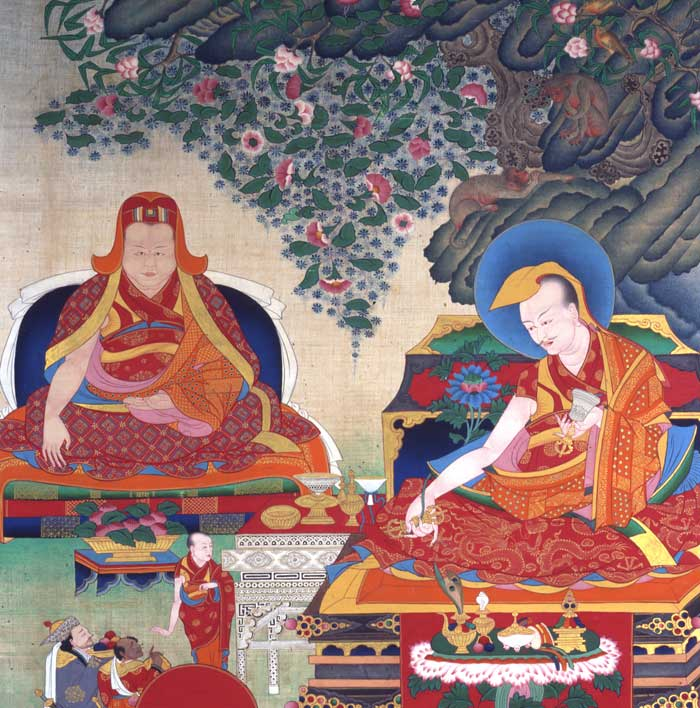 The main figure in the upper right corner shows the 4th Dalai Lama, the omniscient Yonten Gyatso (1589-1616). Detail from a thangka (scroll). © Collection Veena und Peter Schnell, Zurich